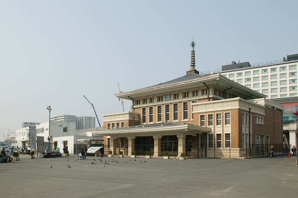 JR West Old Nara Station building. The left back is a temporary station building.